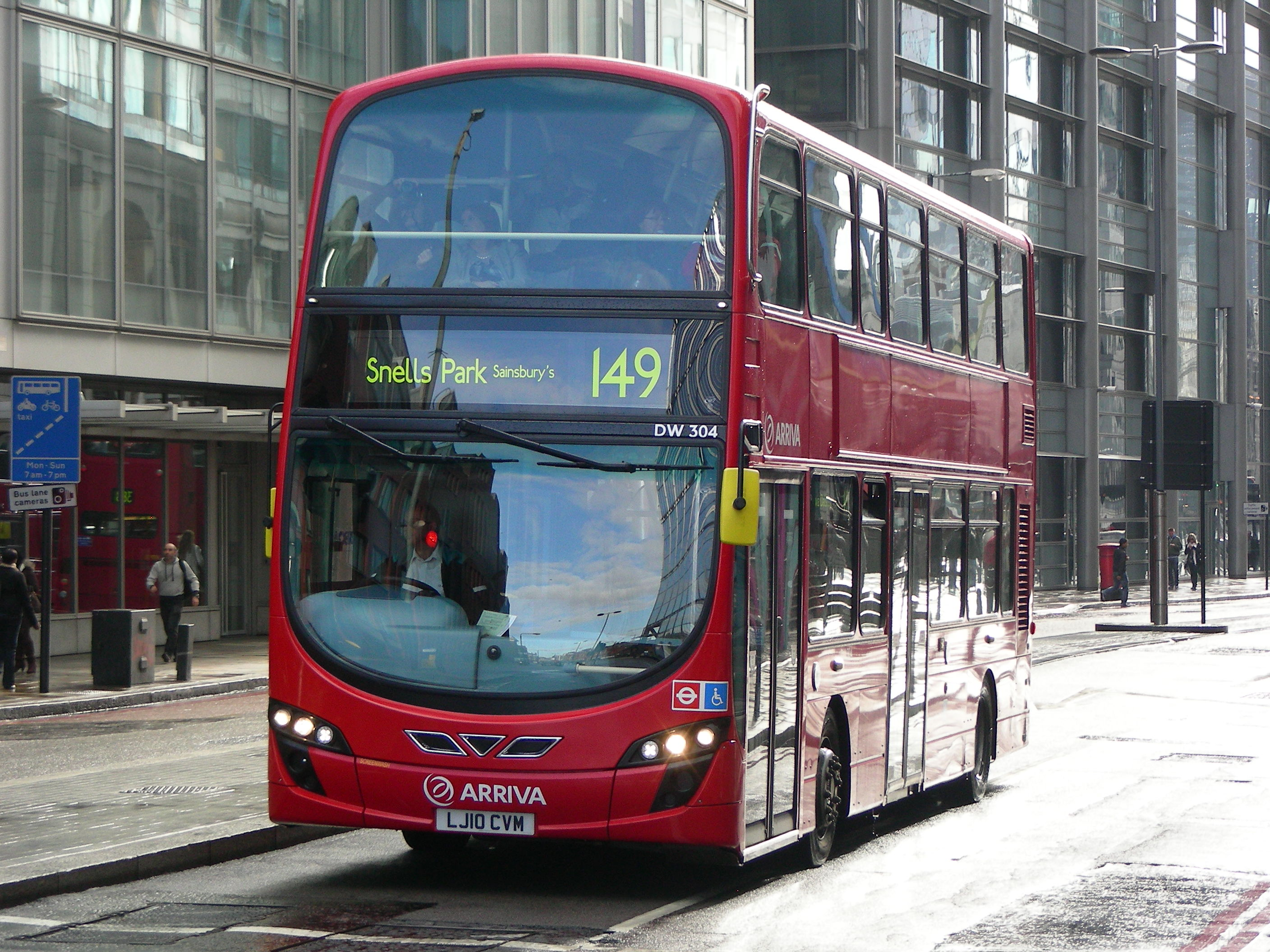 LJ10 CVM at Shoreditch on route #149 to Snells Park (Edmonton) on 16th October 2010. I believe this was the first day of double-decker operation; previously the route had been operated by "bendy buses".